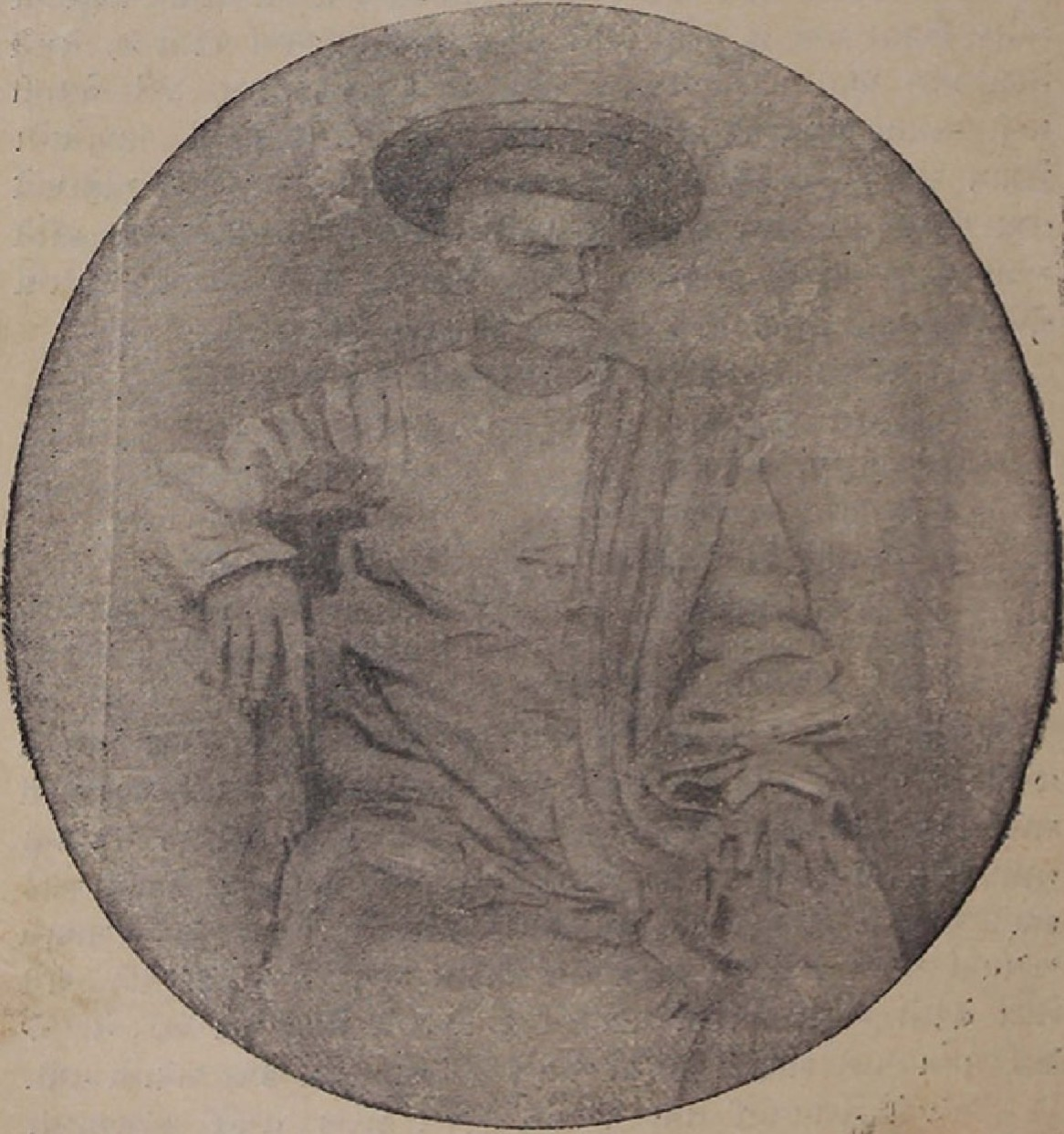 Durgaram Manchharam Mehta (Durgaram Mehtaji) (1809–1876), founder of Manav Dharma Sabha